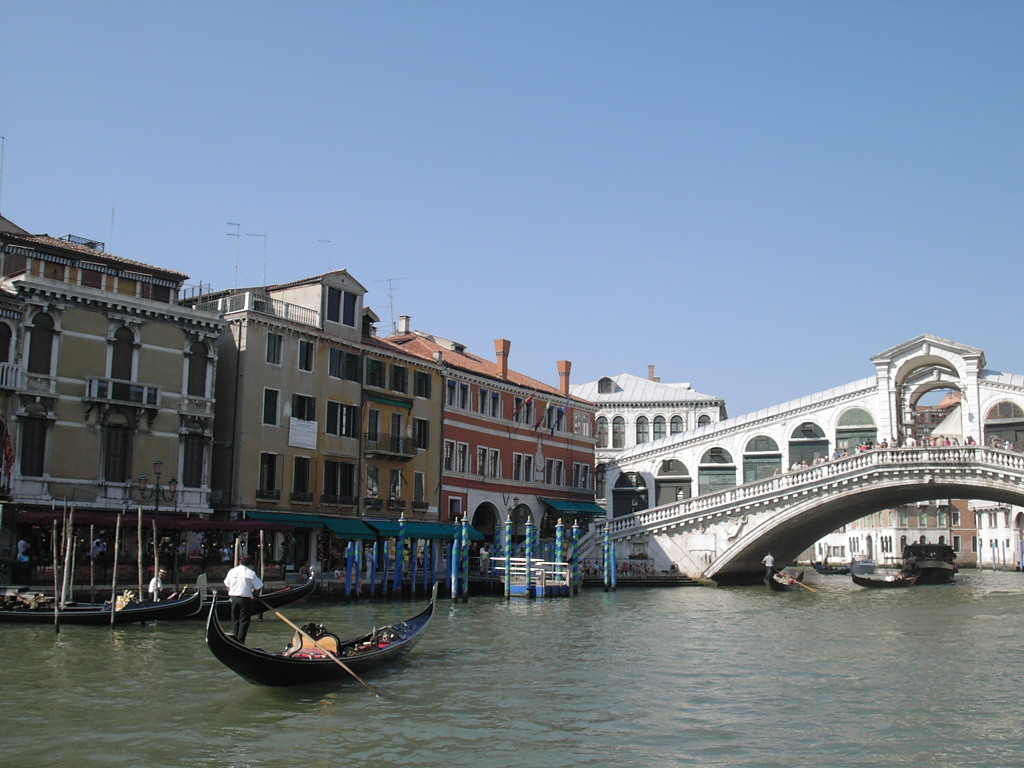 Venice in 2004 summer, photo taken by my brother Martti Mustone